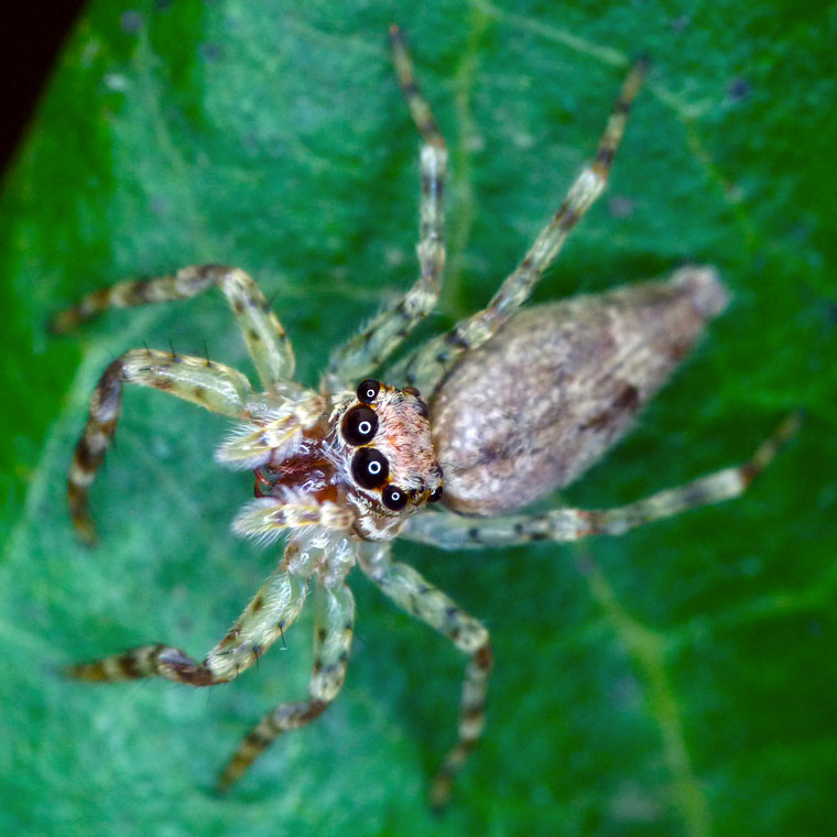 Helpis minitabunda female Easy to tell why this species is sometimes called the inquisitive Jumper, though I call it the Swift Jumper.